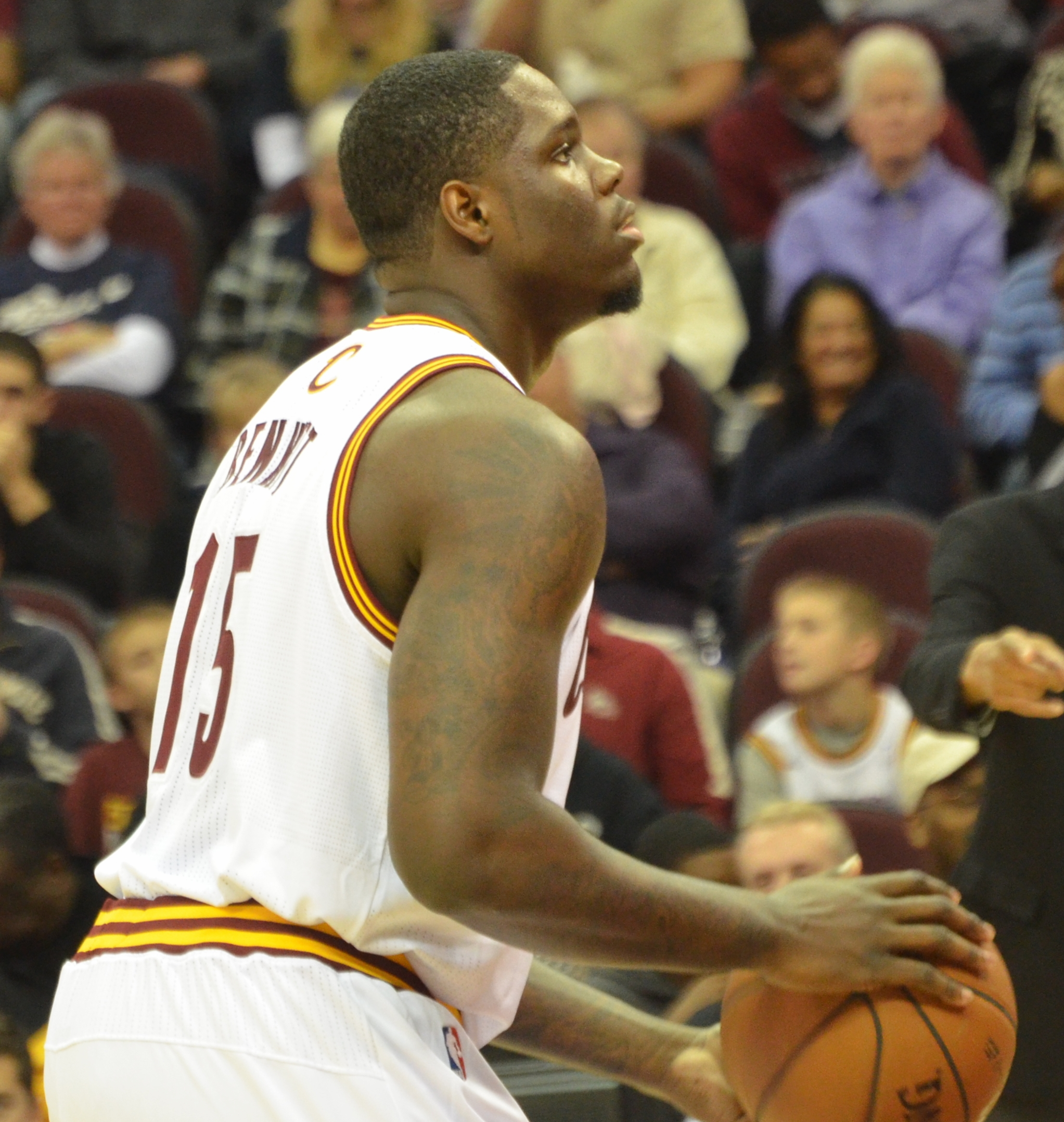 Anthony Bennett